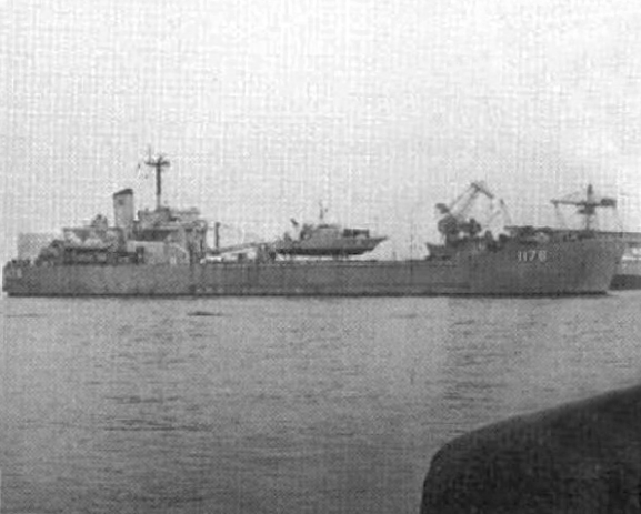 The U.S. Navy tank landing ship USS Wood County (LST-1178) moored pierside at Copenhagen, Denmark, in 1971. Note the the hydrofoil patrol gunboat USS Tucumcari (PGH-2) secured to her deck.